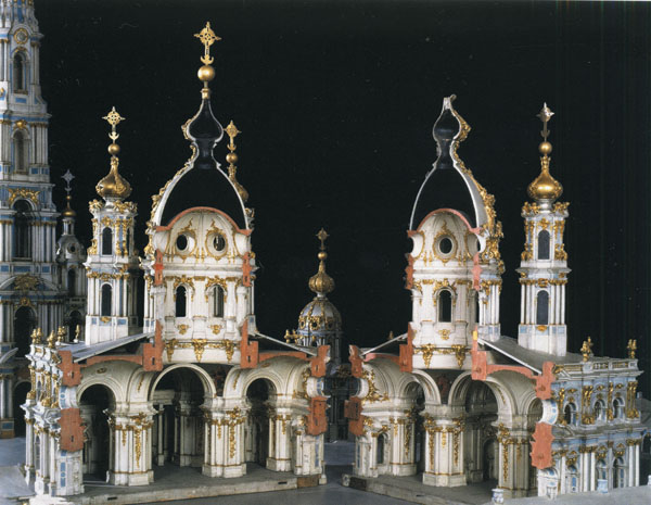 Model of The Smolny Cathedral Smolny Convent of the Resurrection (Voskresensky)